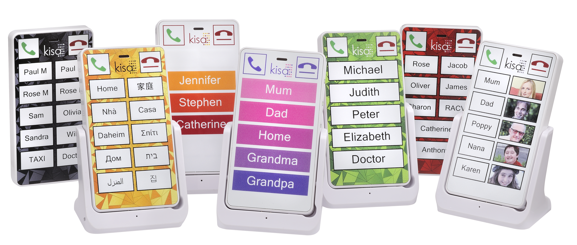 Seven sample KISA Phones in the cradles